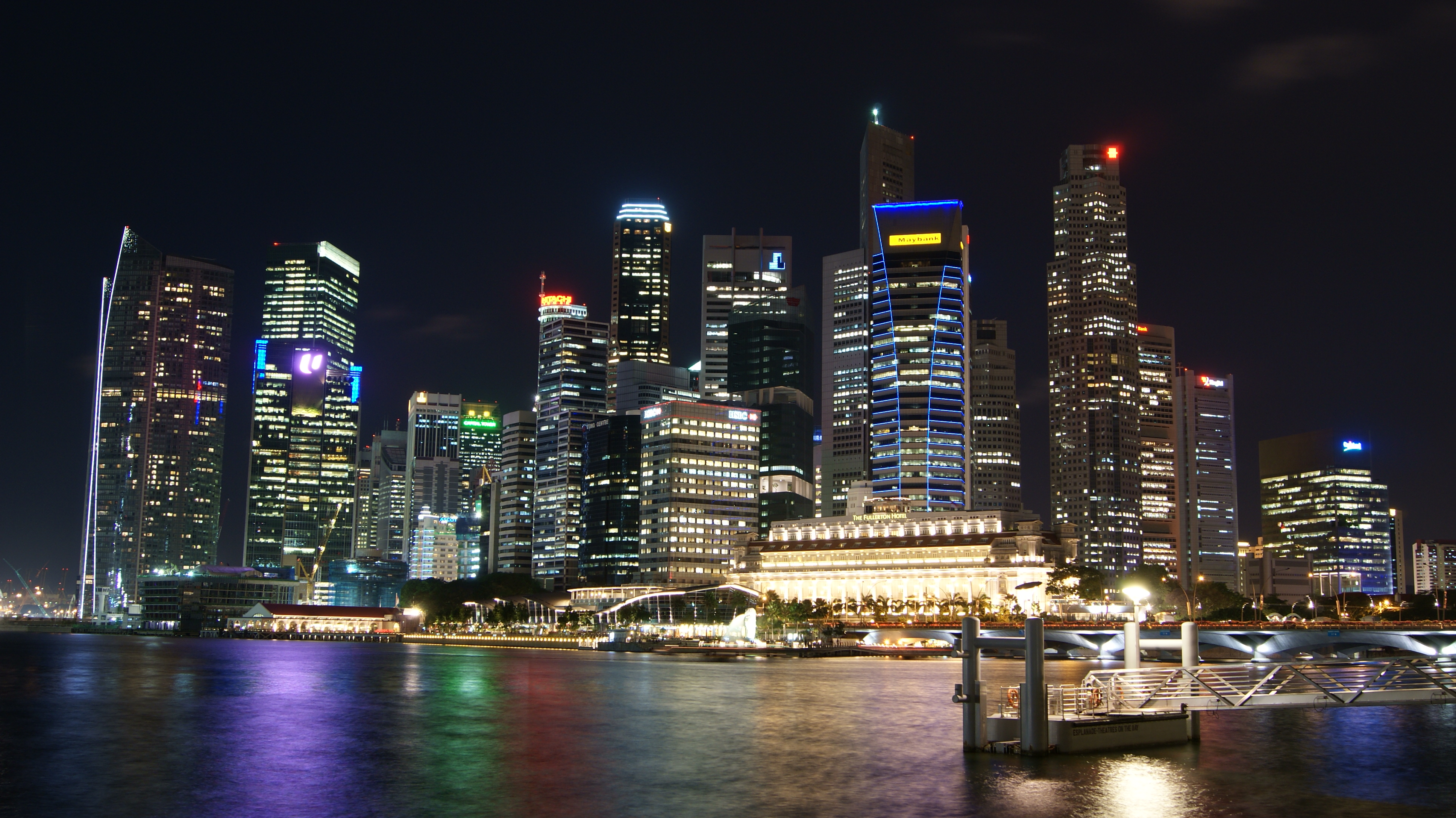 Singapore Skyline with black sky in the background.